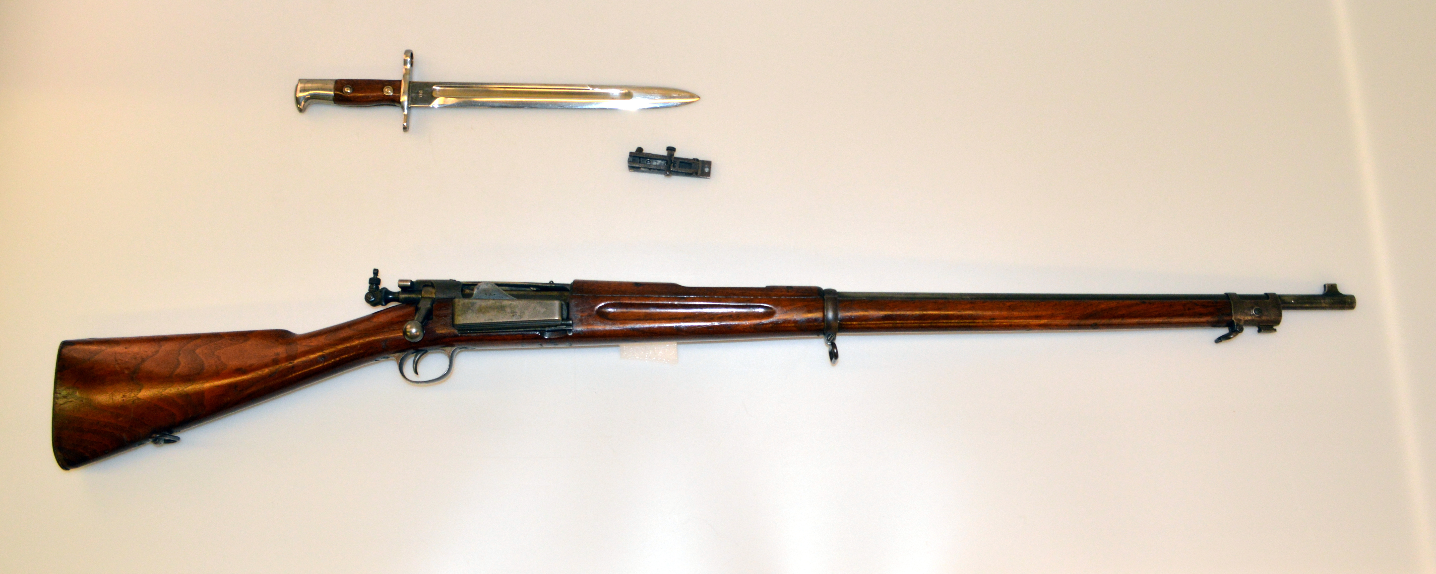 U.S. Model 1898 Springfield Krag-Jorgensen designed rifle. Rifle includes a bayonet and sights.Title: U.S. Model 1898 Springfield Krag-Jorgensen Rifle and Bayonet